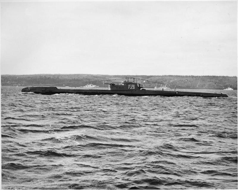 British T class submarine HMSM TOKEN underway.